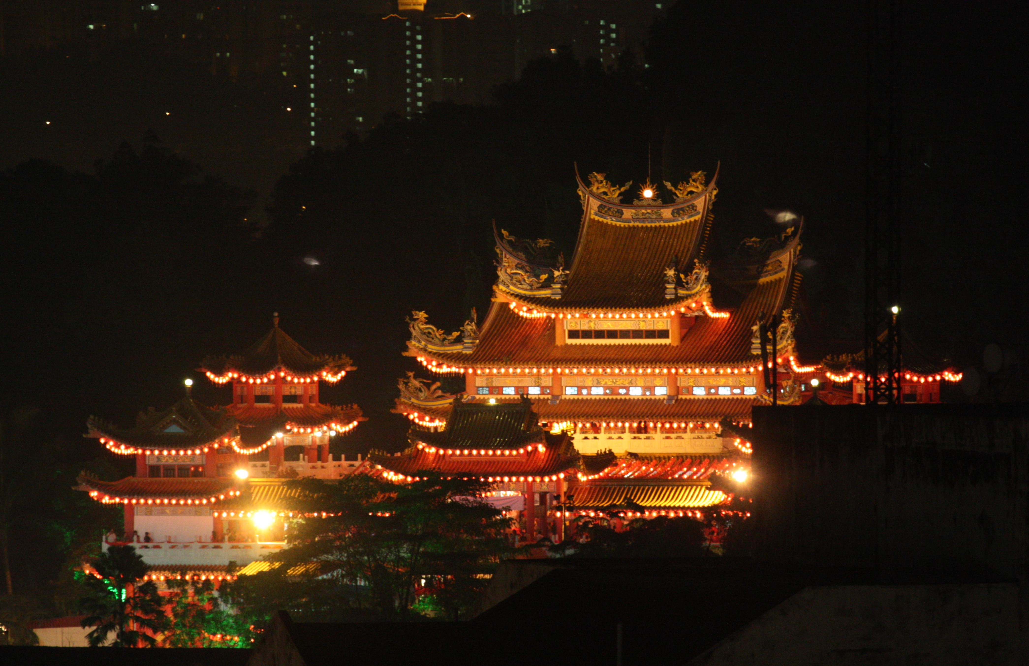 Thean Hou Temple in Kuala Lumpur at Chinese New Year 2010.